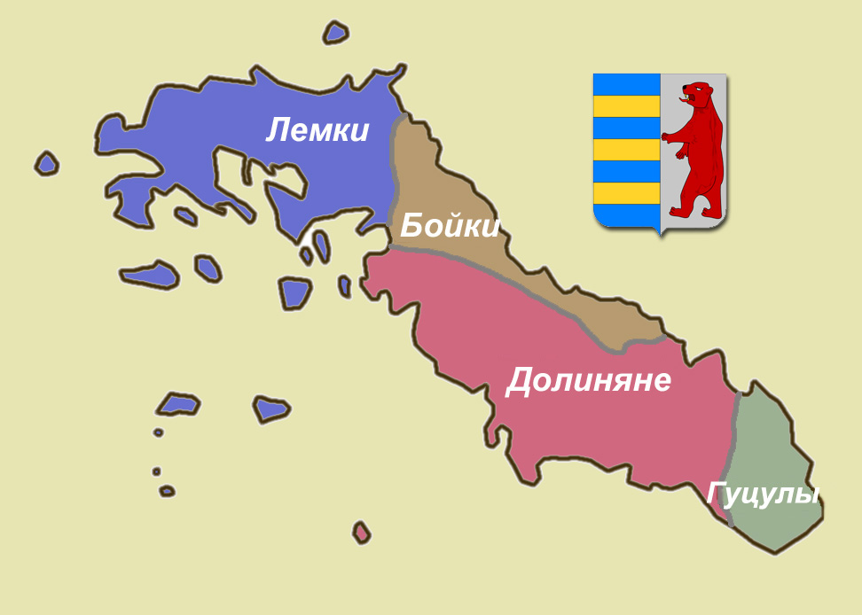 Subethnoses of Rusyns